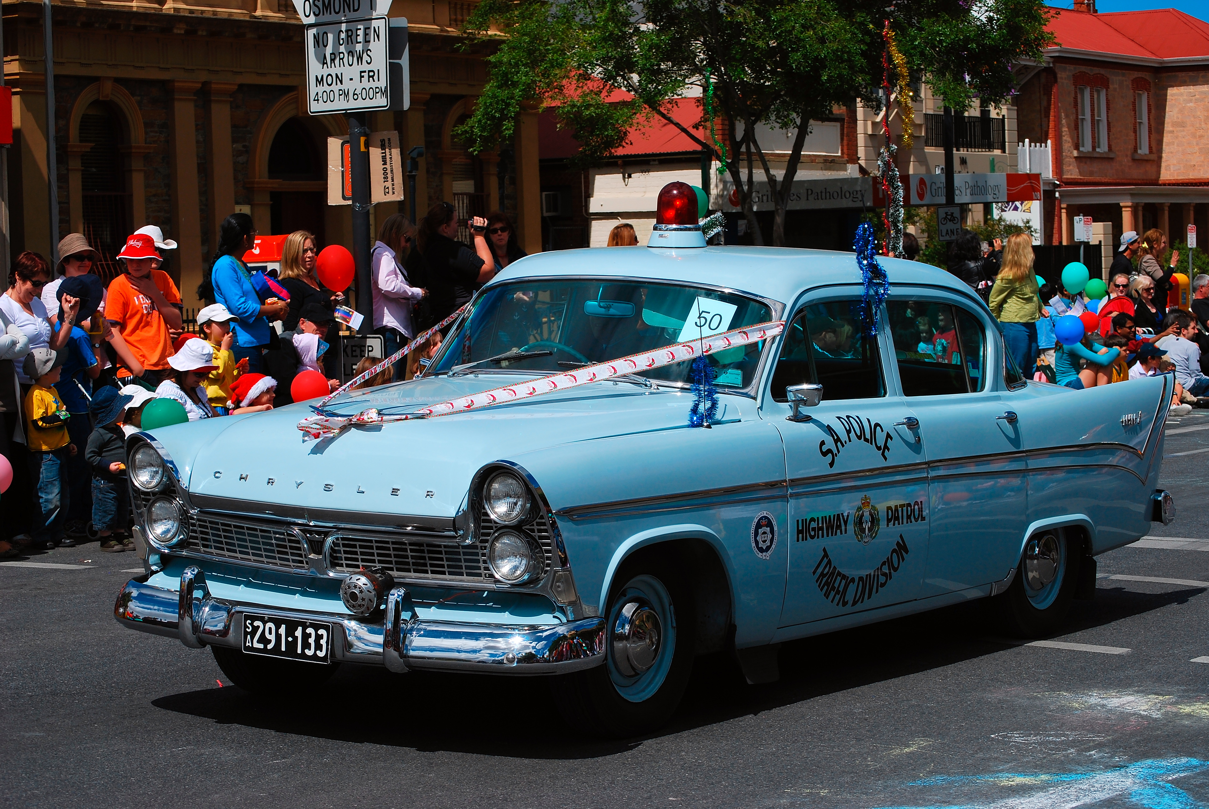 Chrysler Royal AP3 SA Highway Patrol police car at the 2008, Norwood Christmas Pageant, Adelaide South Australia